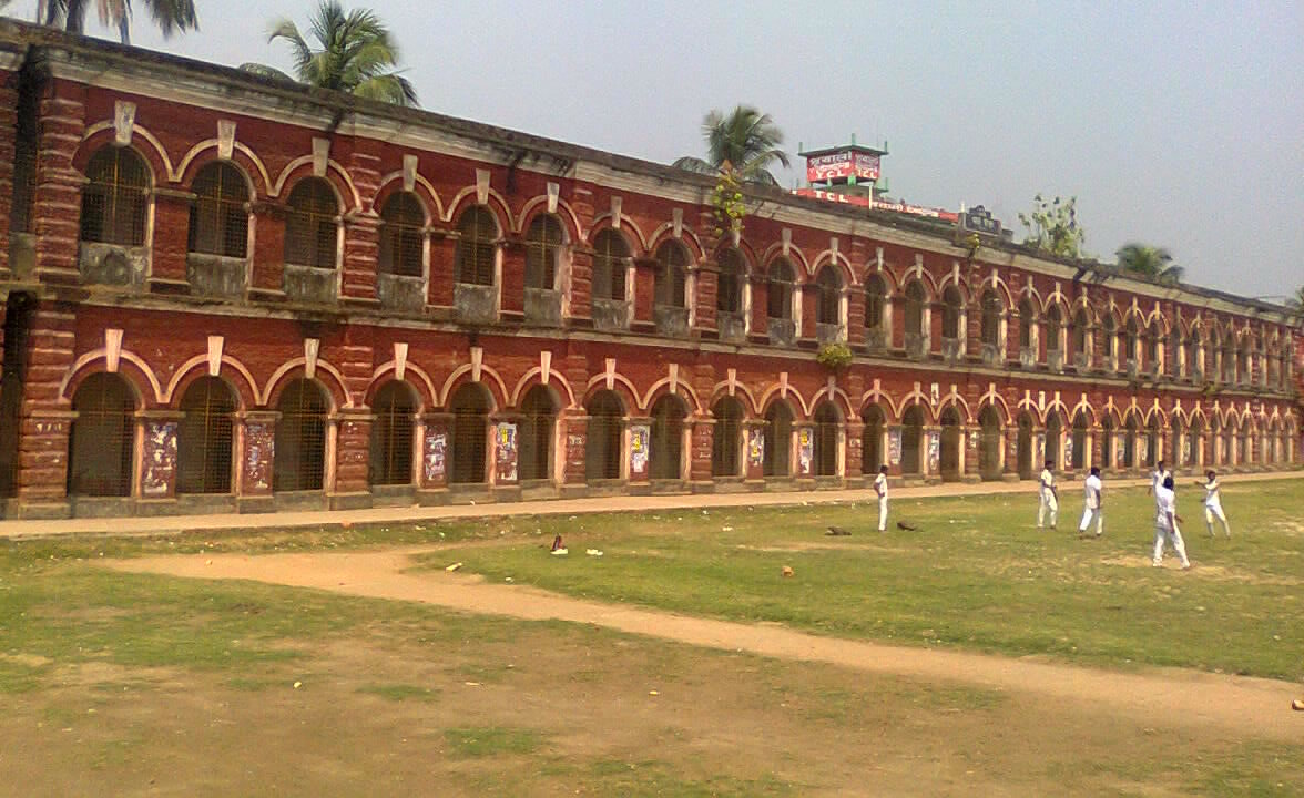 Feni govt. Pilot high school main Building (old)